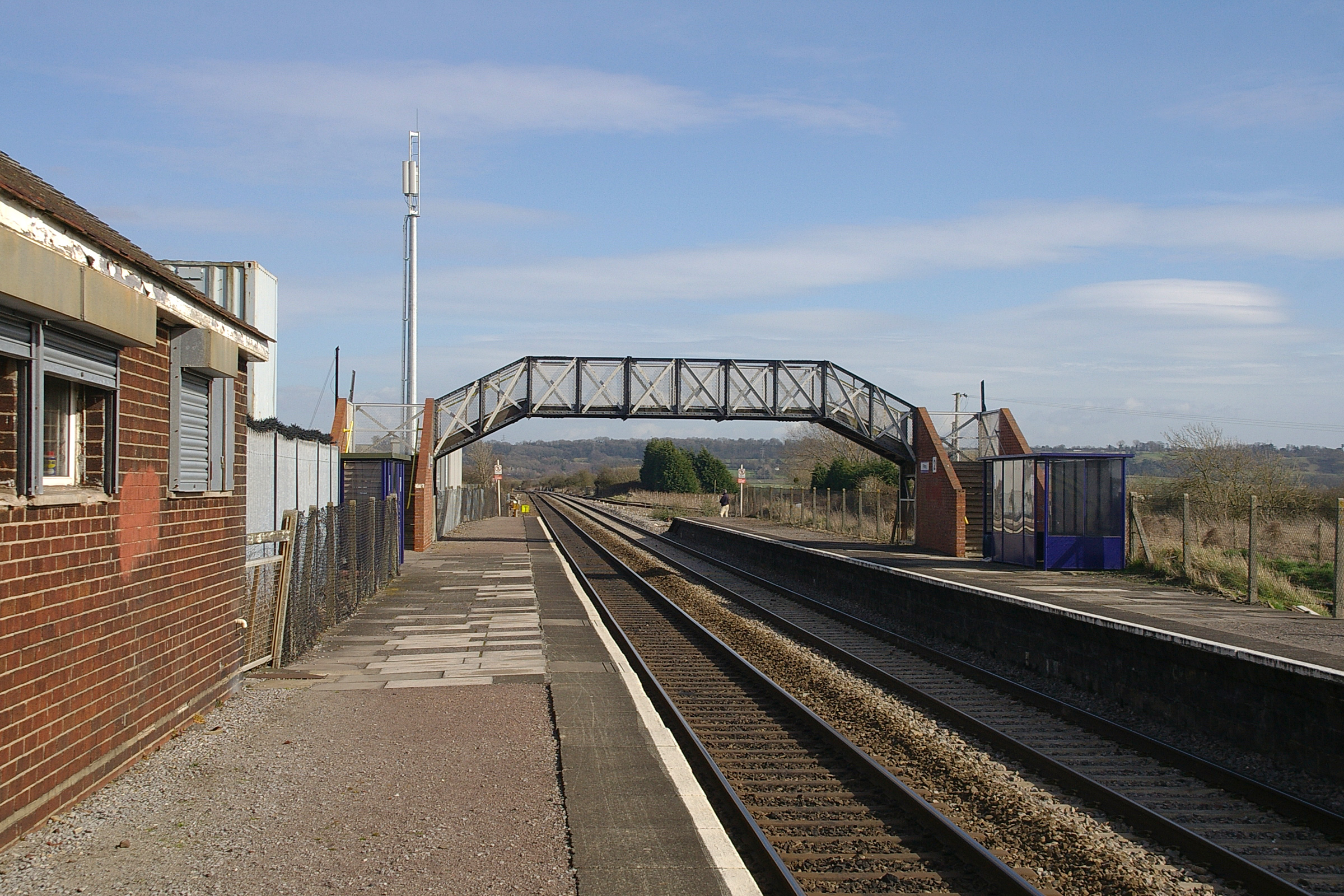 Pilning railway station, looking east.